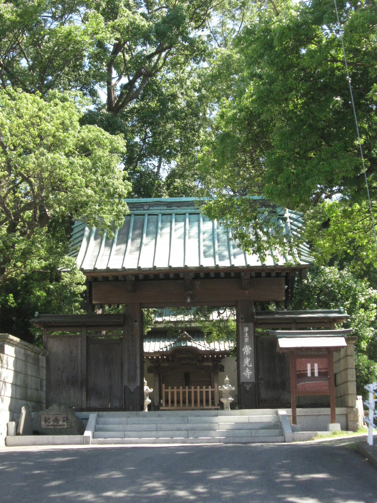 Sanmon at Jōkō-ji in Fujisawa City, Kanagawa Prefecture, Japan